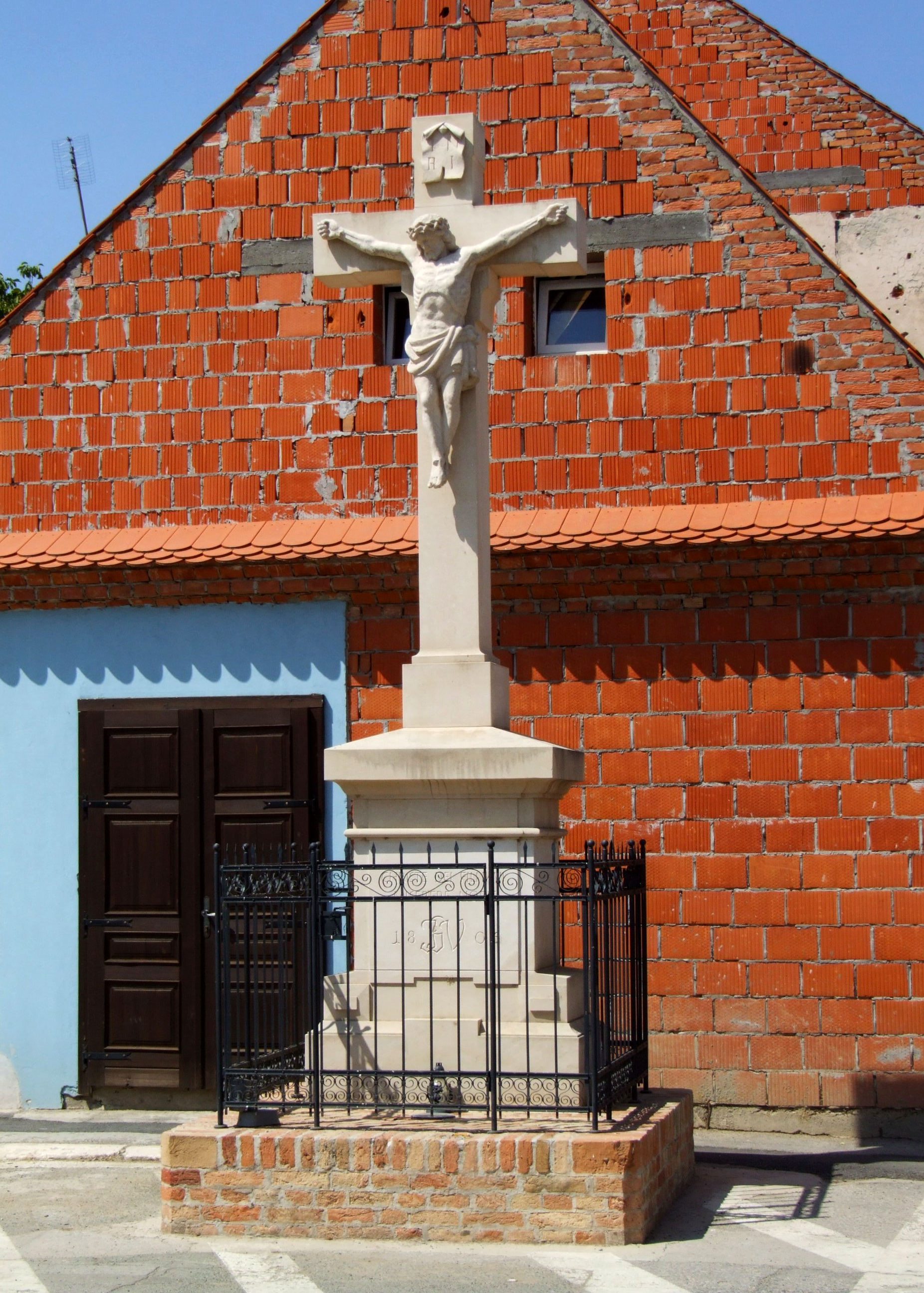 Cross in Vukovar